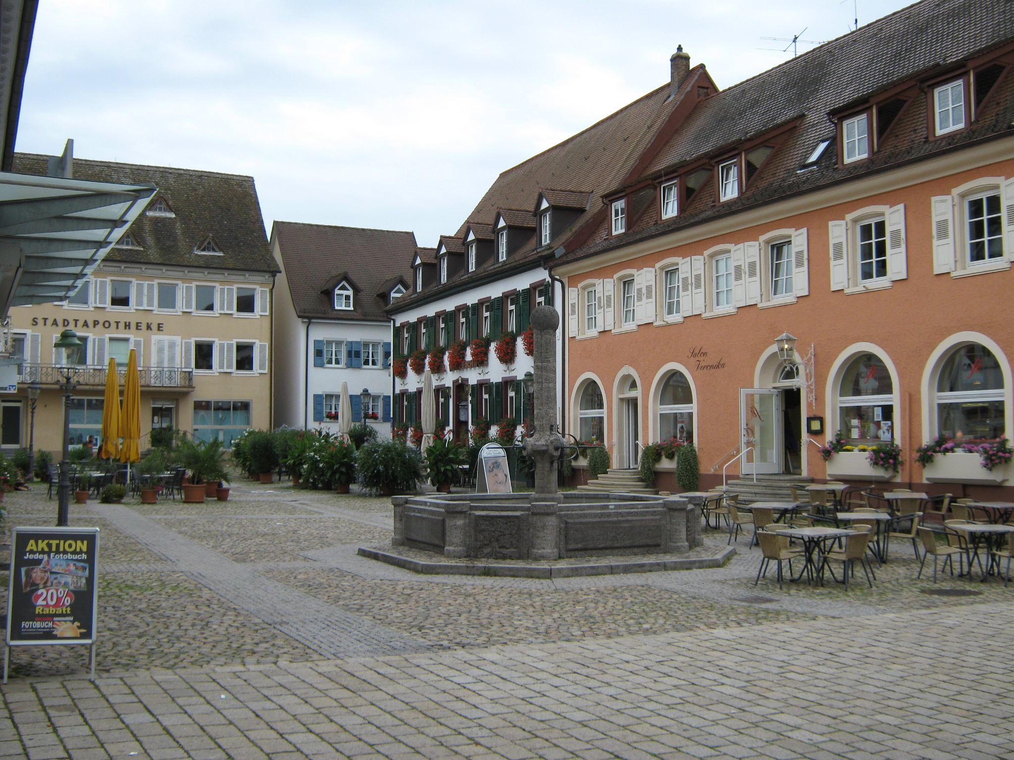 the marketplace in Müllheim (baden), Germany, Baden-Württemberg